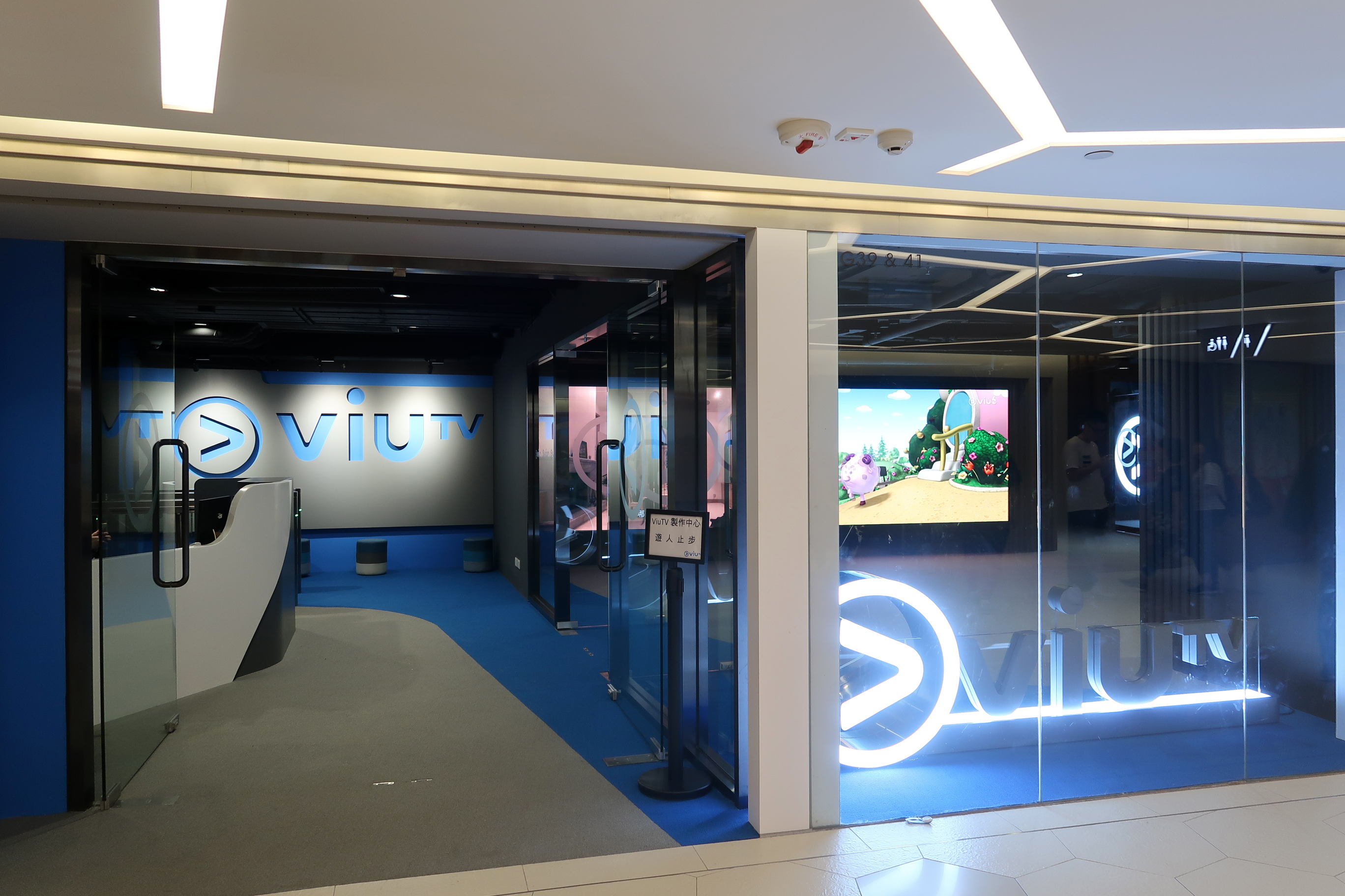 ViuTV Office in Kowloon Bay